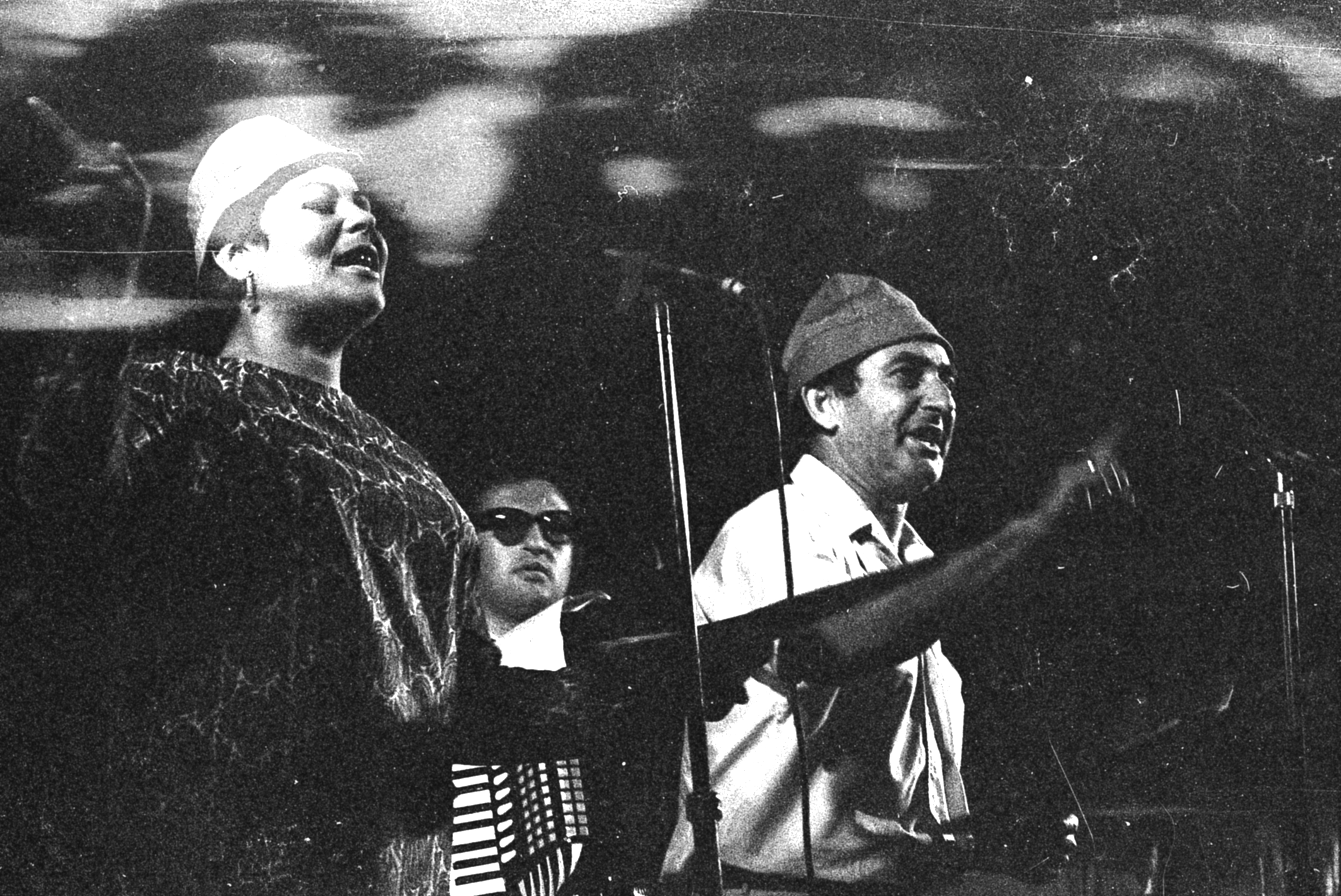 Israel Galili in an IDF base participating in the show "Kaleidoscope" with Haim Yavin from the Israeli TV.